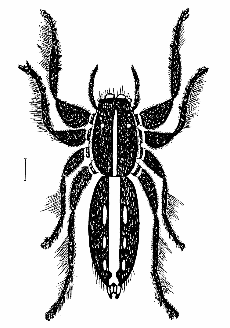 Ocrisiona leucocomis submature female, from L. Koch, 1879. Specimen from Australia.